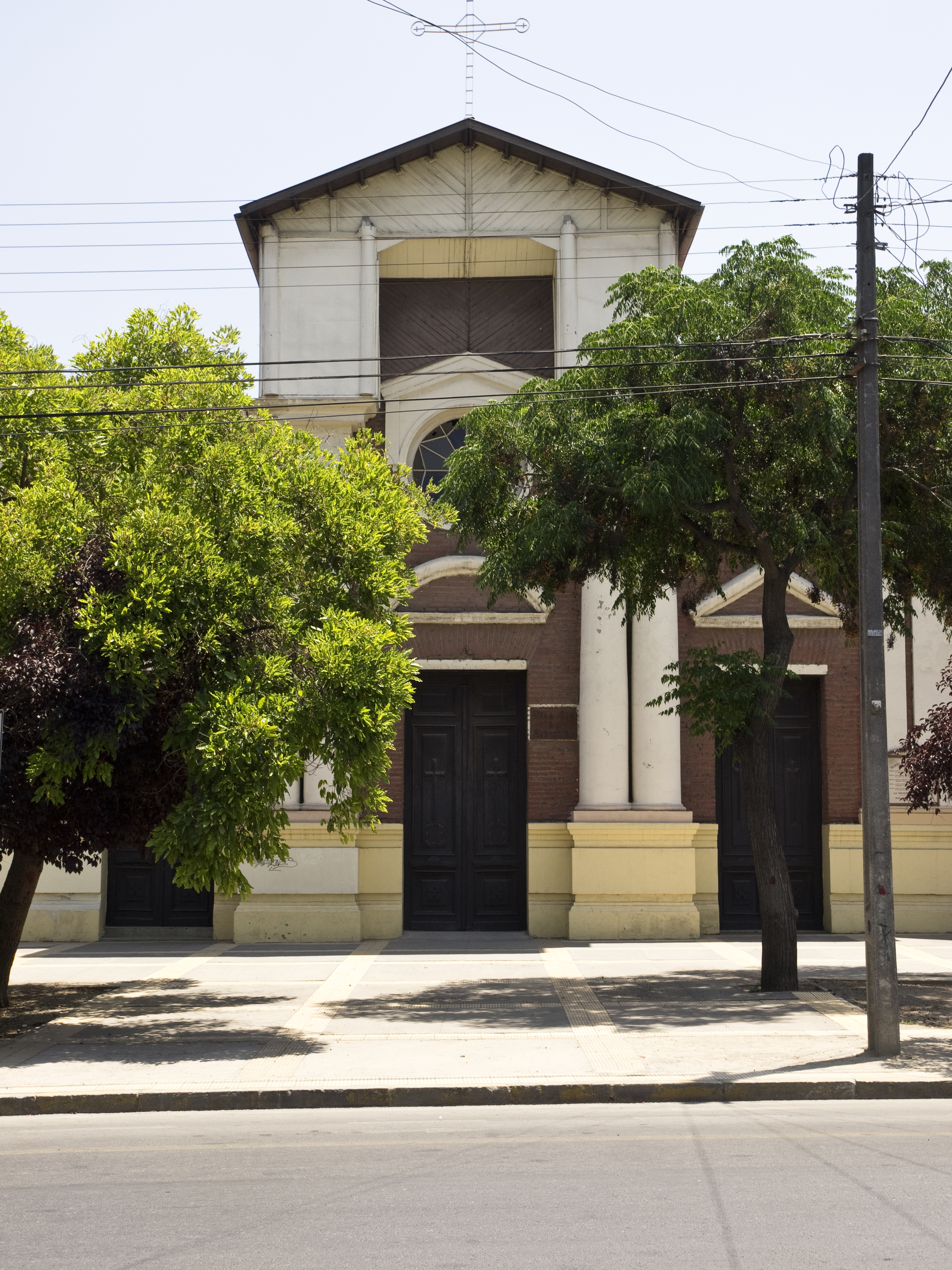 View of the Parroquia Nuestra Señora de Andacollo from Mapocho Street in Santiago, Chile.